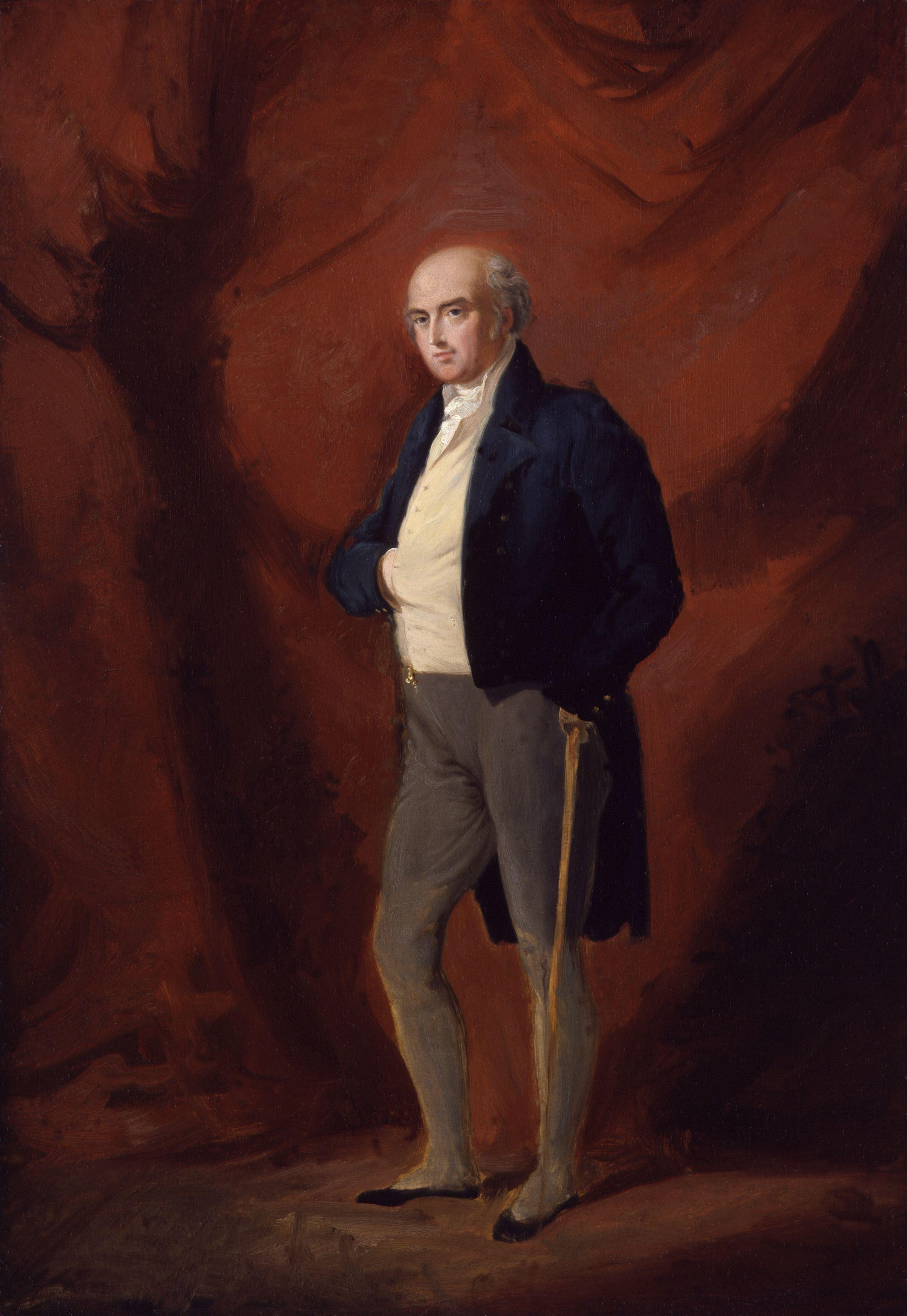 Henry Richard Vassall Fox, 3rd Baron Holland, by Sir George Hayter (died 1871), given to the National Portrait Gallery, London in 1978. All images in this batch have been confirmed as author died before 1939 according to the official death date listed by the NPG.